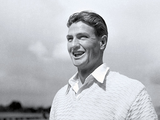 Keith Miller in the UK during WW2